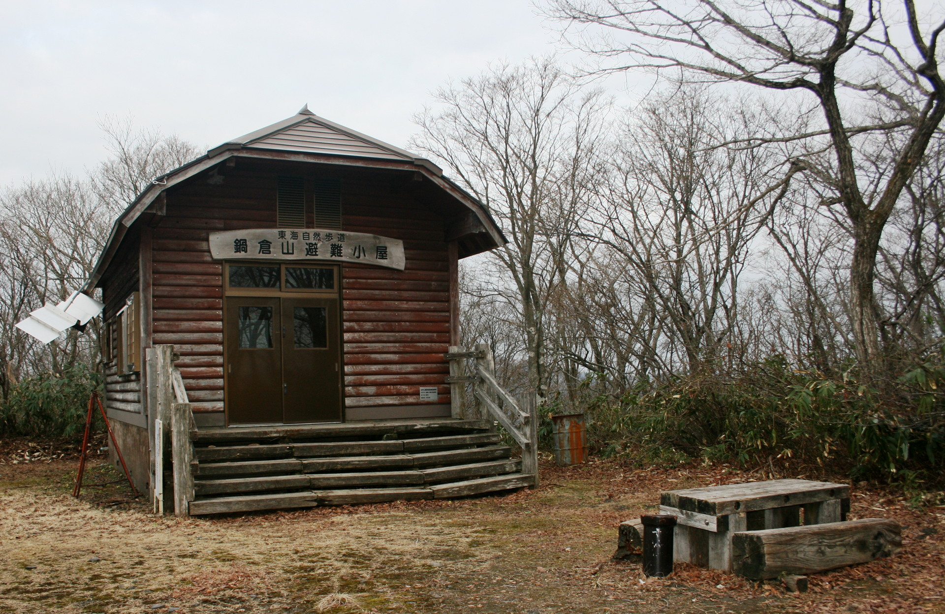 Nabekura-yama-hinangoya, a mountain hut (bivouac hut) on Tōkai Nature Trail, in Mount Nabekura, Ibigawa, Gifu Prefecture, Japan.